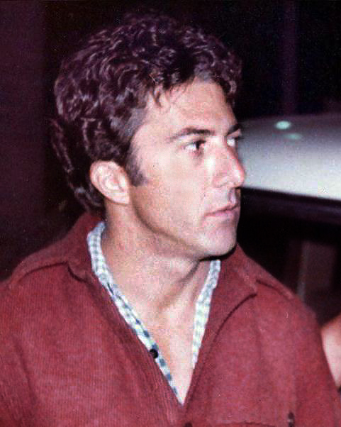 Dustin Hoffman, as released by image creator Lars Jacob ProdPlace: Movie set of Lenny, Ft. Lauderdale, Florida